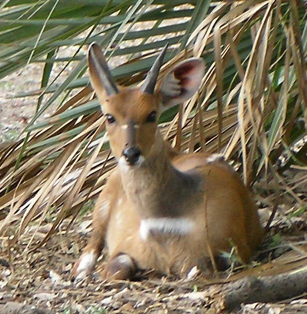 The consensus seems to be that this is a young male bushbuck ((ie not an impala). Location is Gorongosa National Park, Mozambique. A large tree is to the right of the photo. Camera is pointing north. Altitude 21 meters.